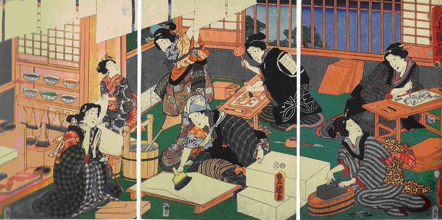 An ukiyo-e print triptych showing a group of beauties making ukiyo-e prints.